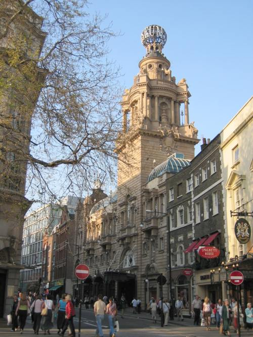 London, The London Coliseum, Home of the English National Opera, following refurbishment in 2004.